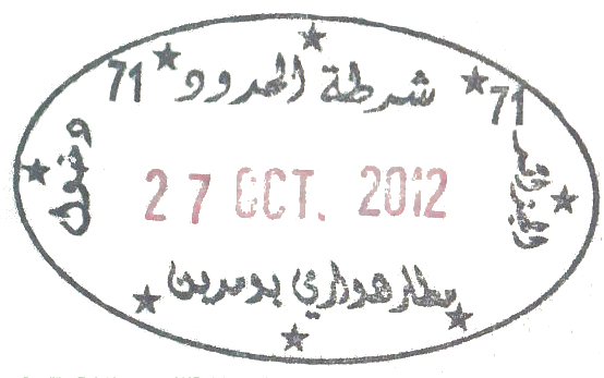 Entry stemp of Algeria (Houari Boumediene Airport)